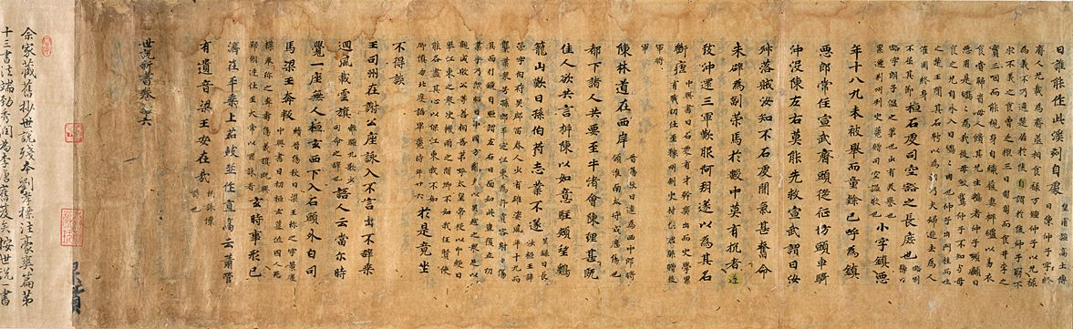 Shishuo Xinshu (New Account of Tales of the World) (世説新書, sesetsu shingo)